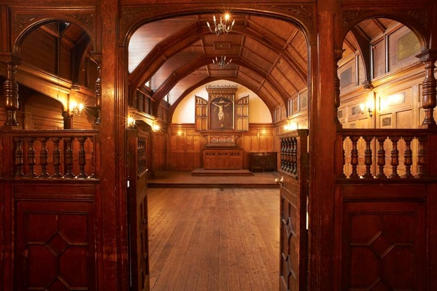 Chapel on 3rd Floor at Oxford House in Bethnal Green